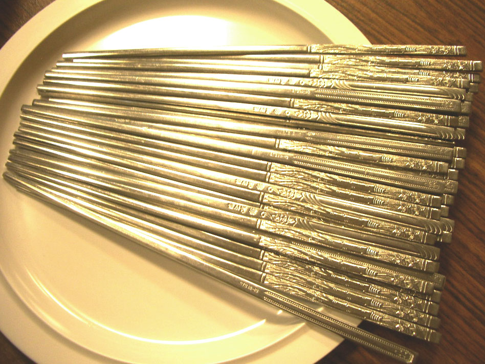 Korean chopsticks